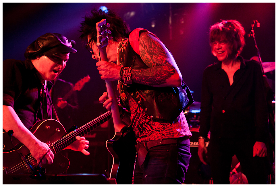 The New York Dolls in SO36